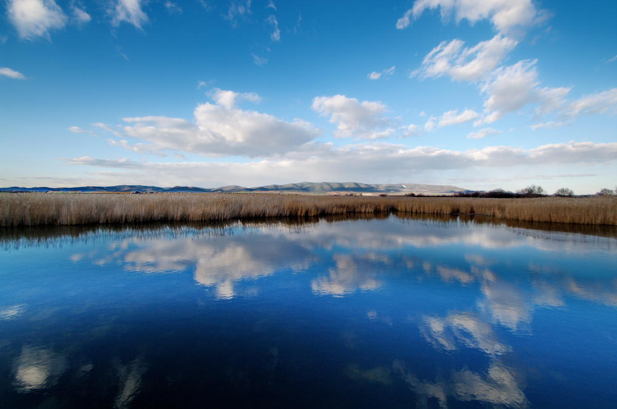 One of de flooded areas of "Las Tablas". Water an sky in blue.